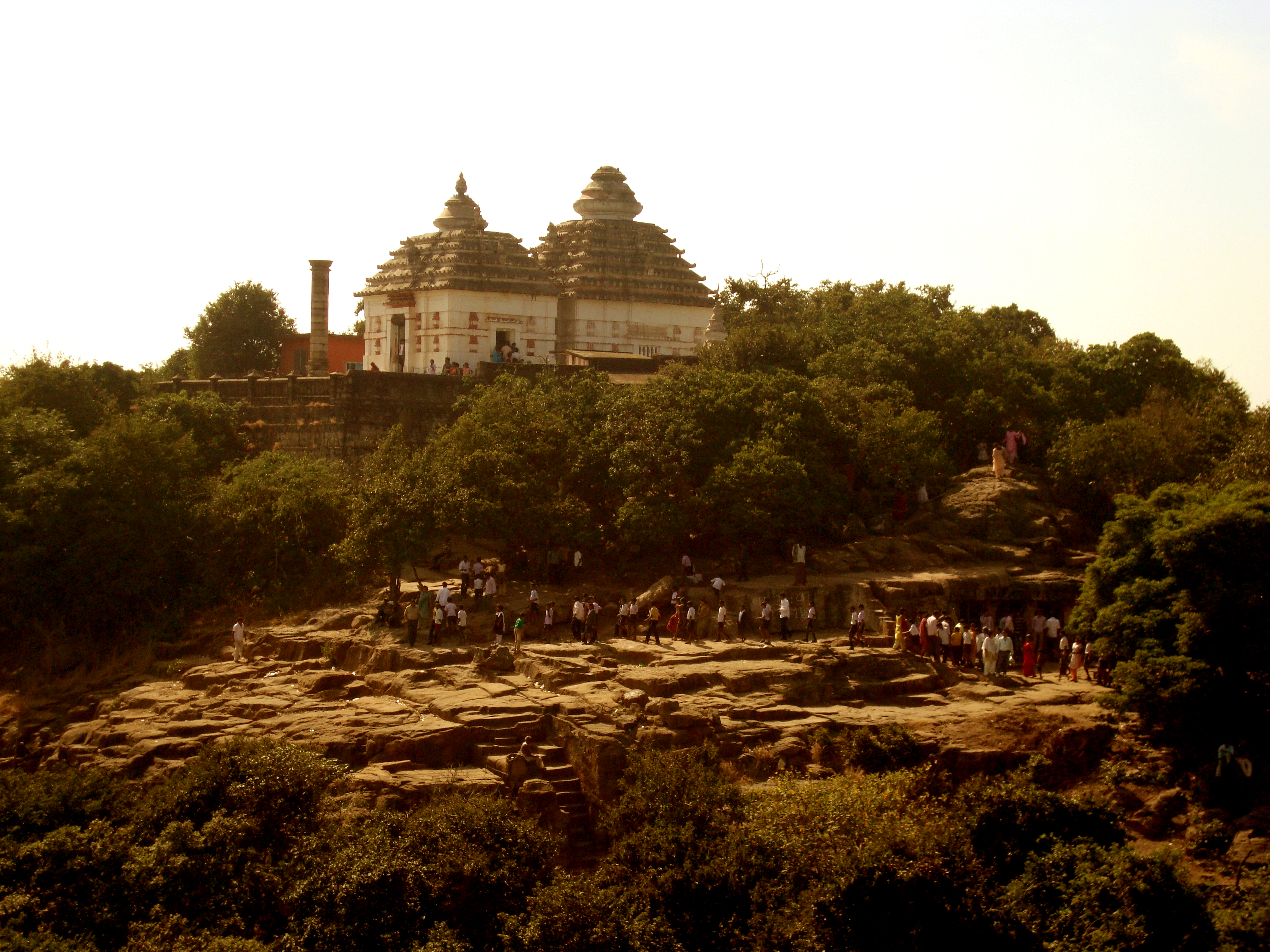 udayagiri caves